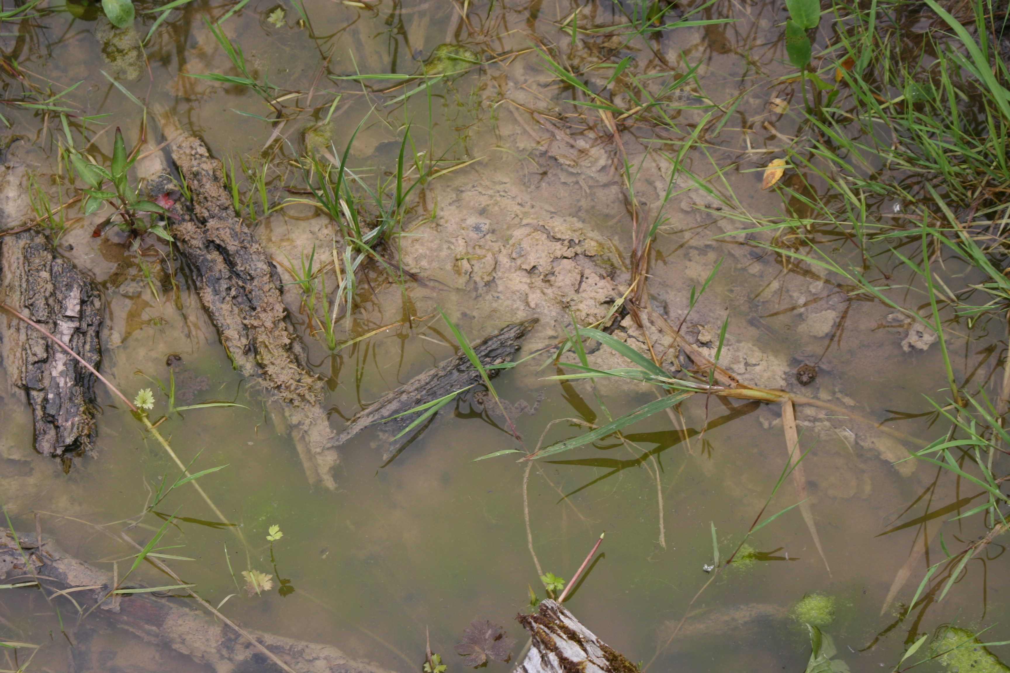 Yellow-bellied toad (Bombina variegata) photographed in Weinsberg